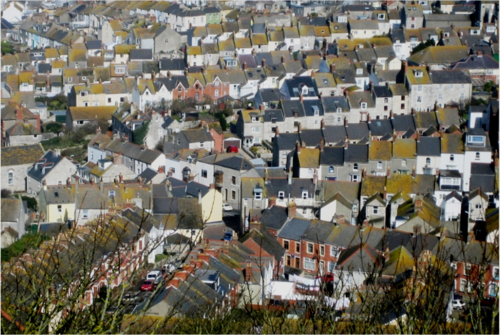 Terraced houses at Fortuneswell, Dorset, UK